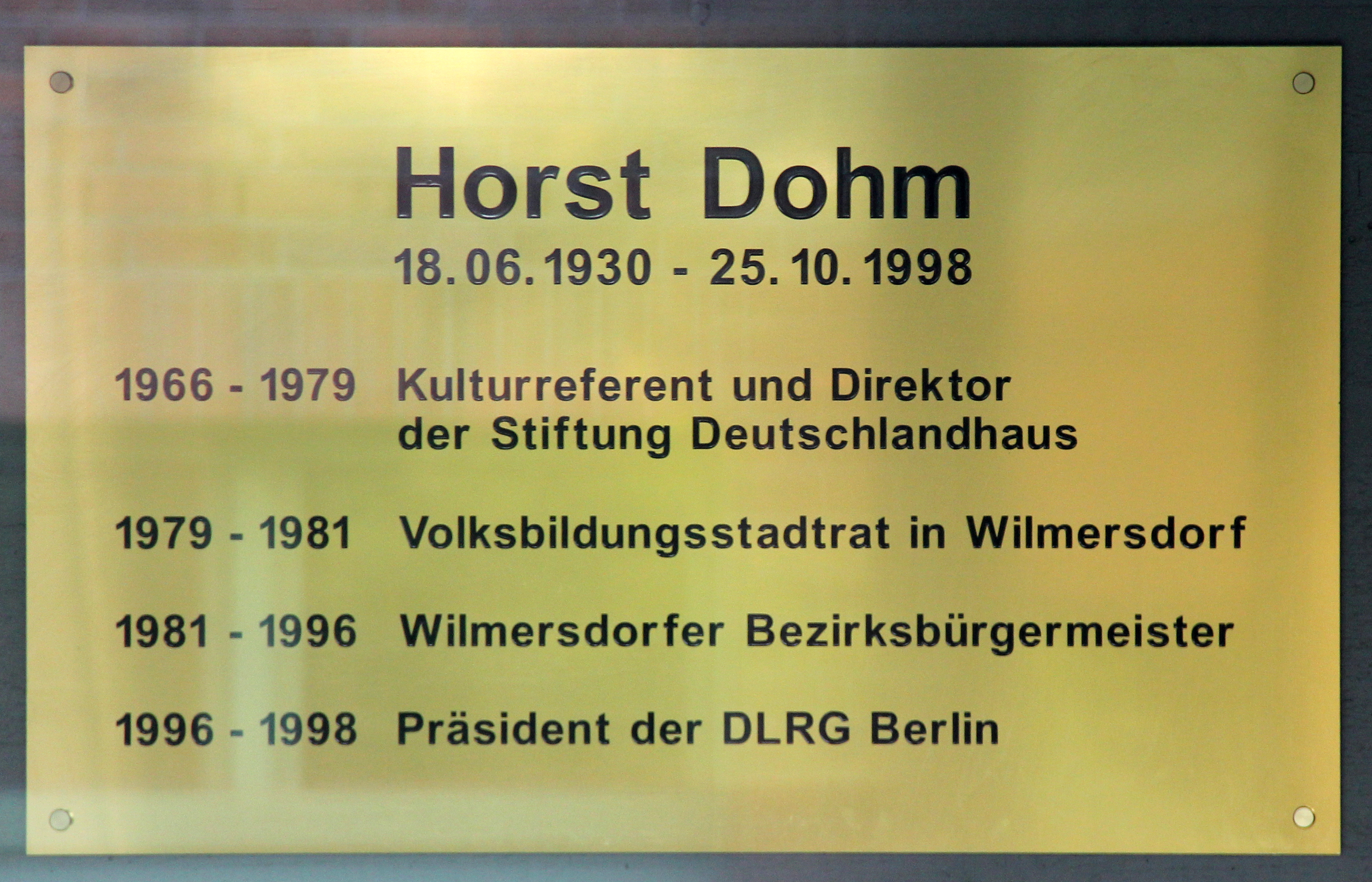 Memorial plaque, Horst Dohm, Fritz-Wildung-Straße 9, Berlin-Schmargendorf, Germany